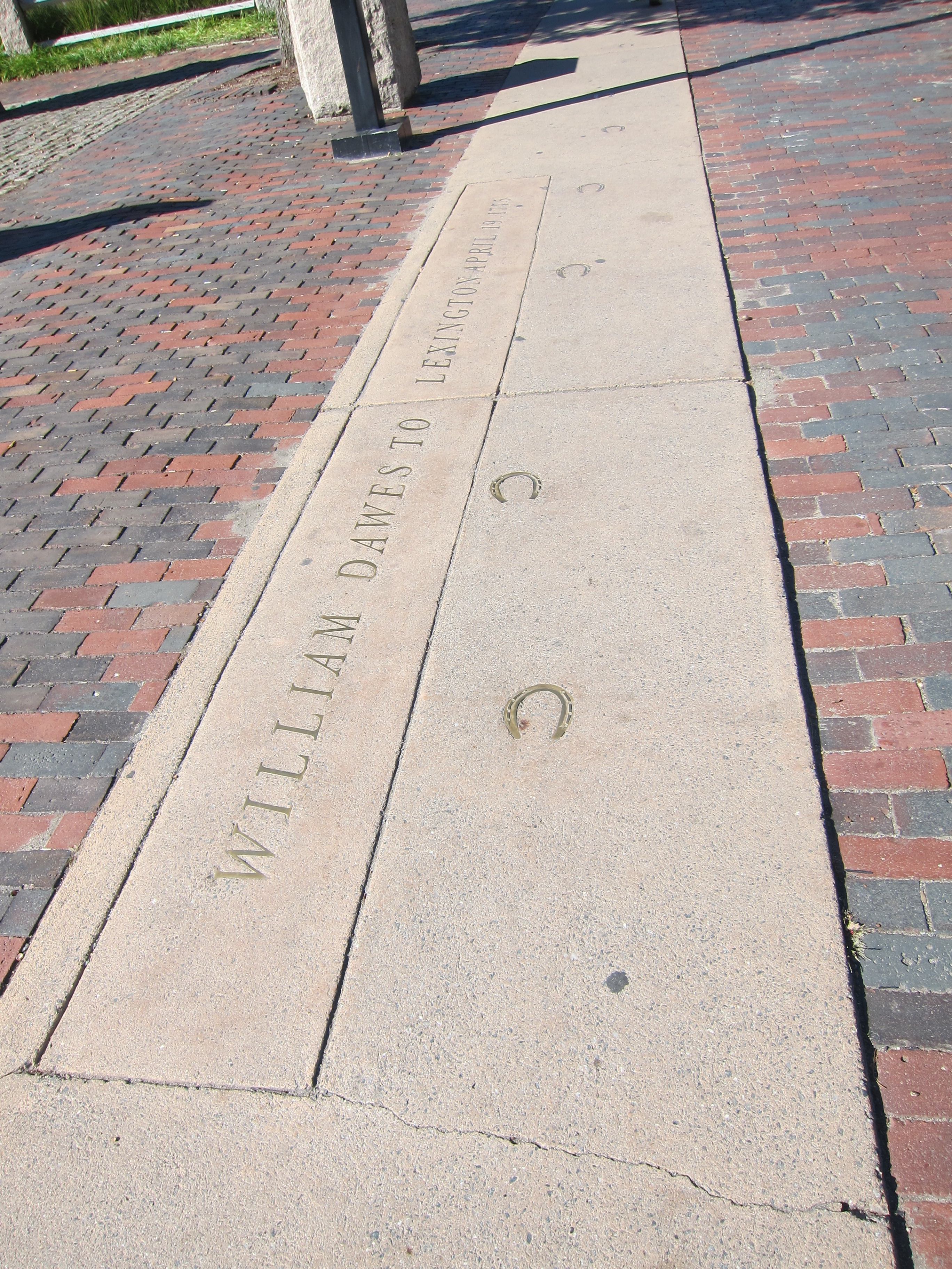 Commemoration of Dawes's ride with bronze horseshoes embedded in the sidewalk, accompanied by an inscription "William Dawes to Lexington April 19, 1775". Location: "Dawes Island", Harvard Square, Cambridge, Massachusetts.